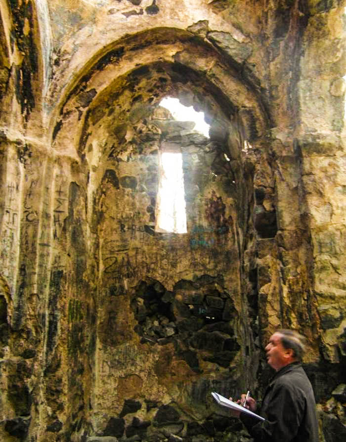 Gadabay church interier